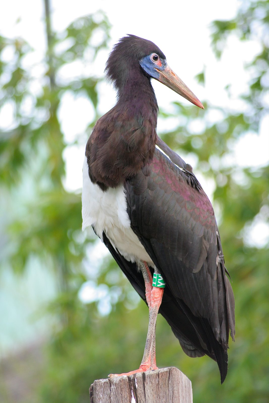 Abdim's Stork at London Zoo, England.